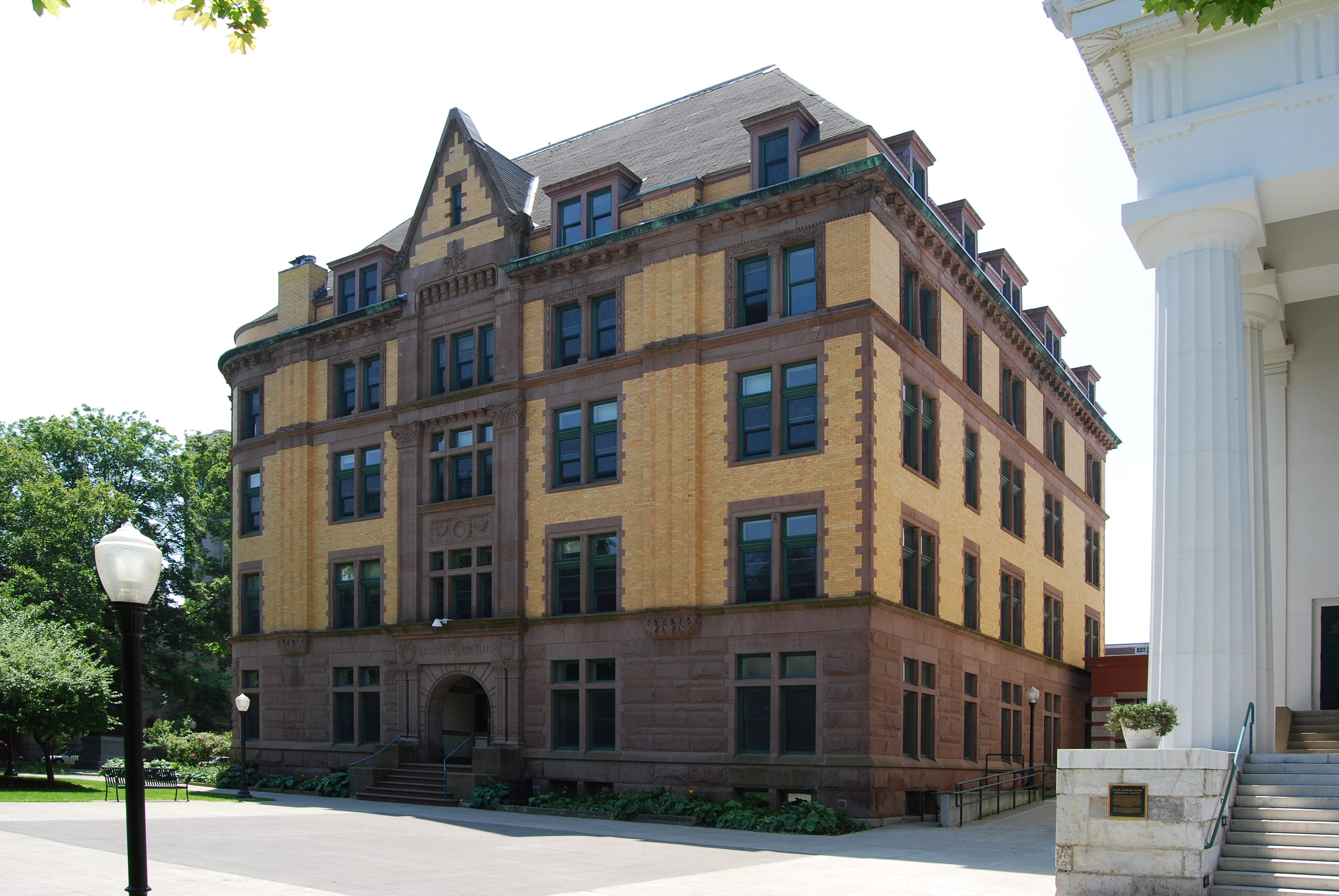 Russell Sage Hall on the campus of Russell Sage College in Troy, New York, United States